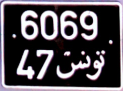 Standard square Tunisian license plate, Tunisia